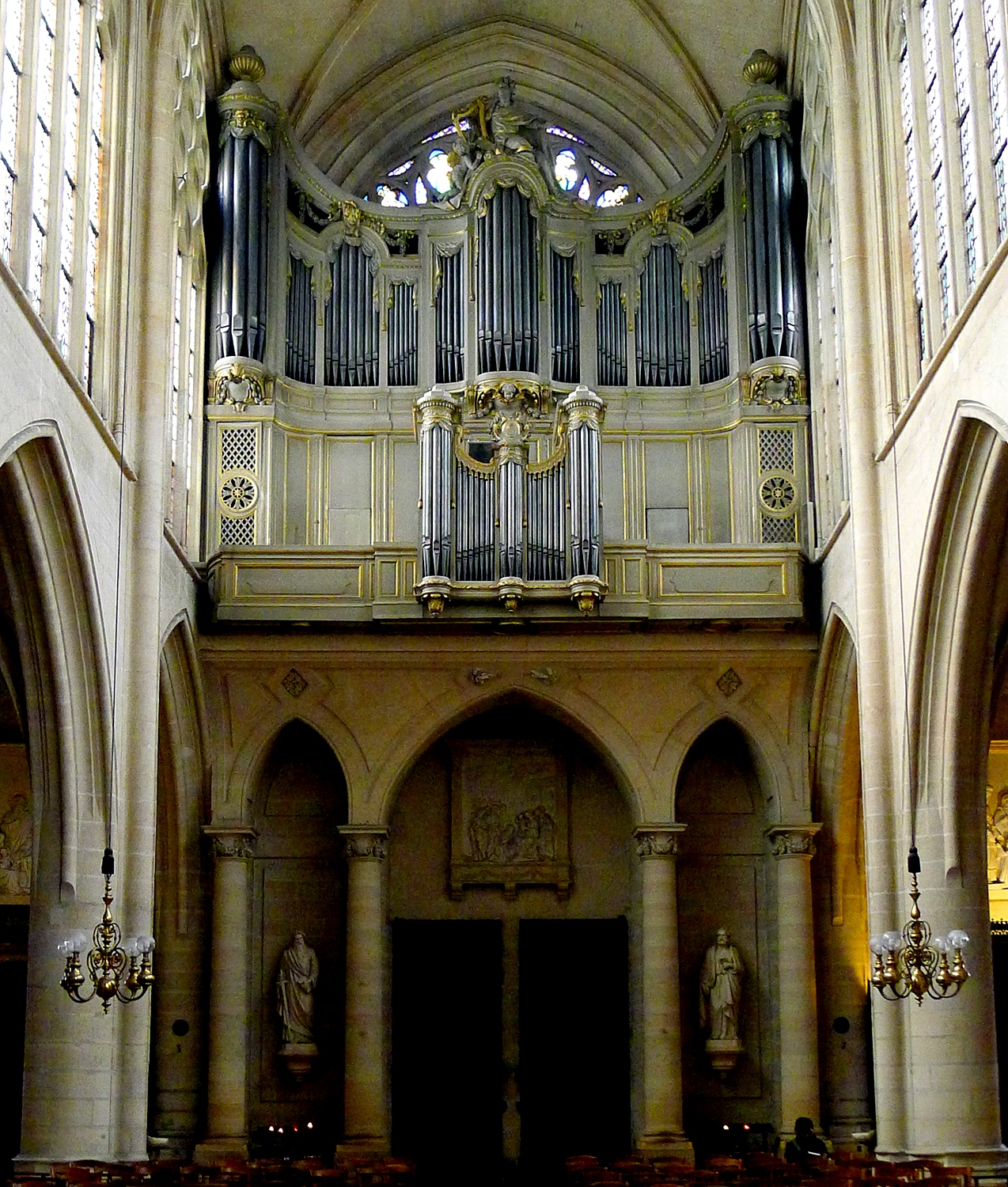 Saint-Germain l'Auxerrois church - Paris